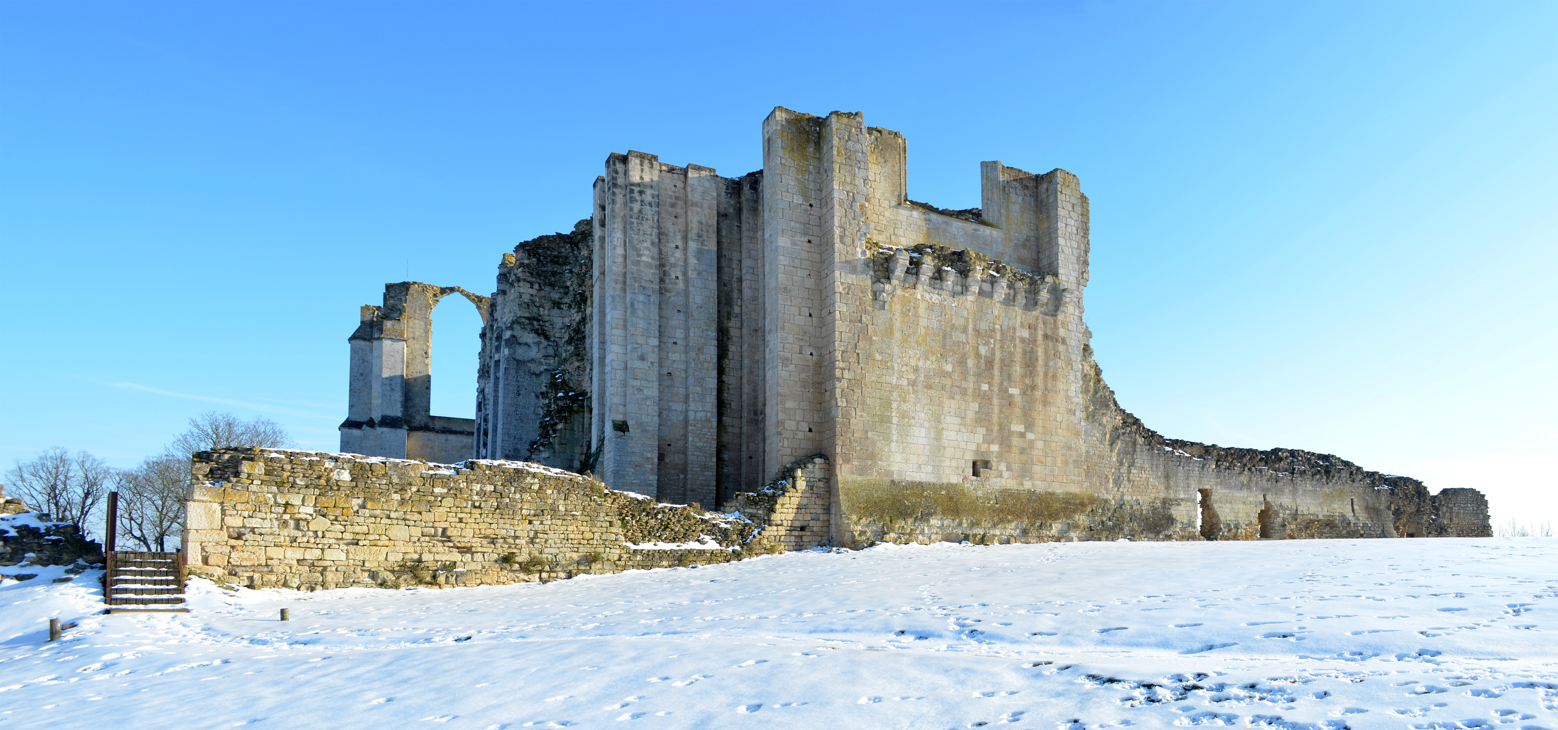 Saint-Pierre cathedral of Maillezais - Vendée, France .